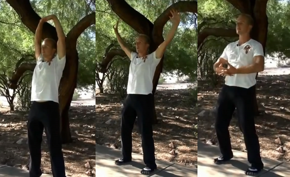 menyanggah langit